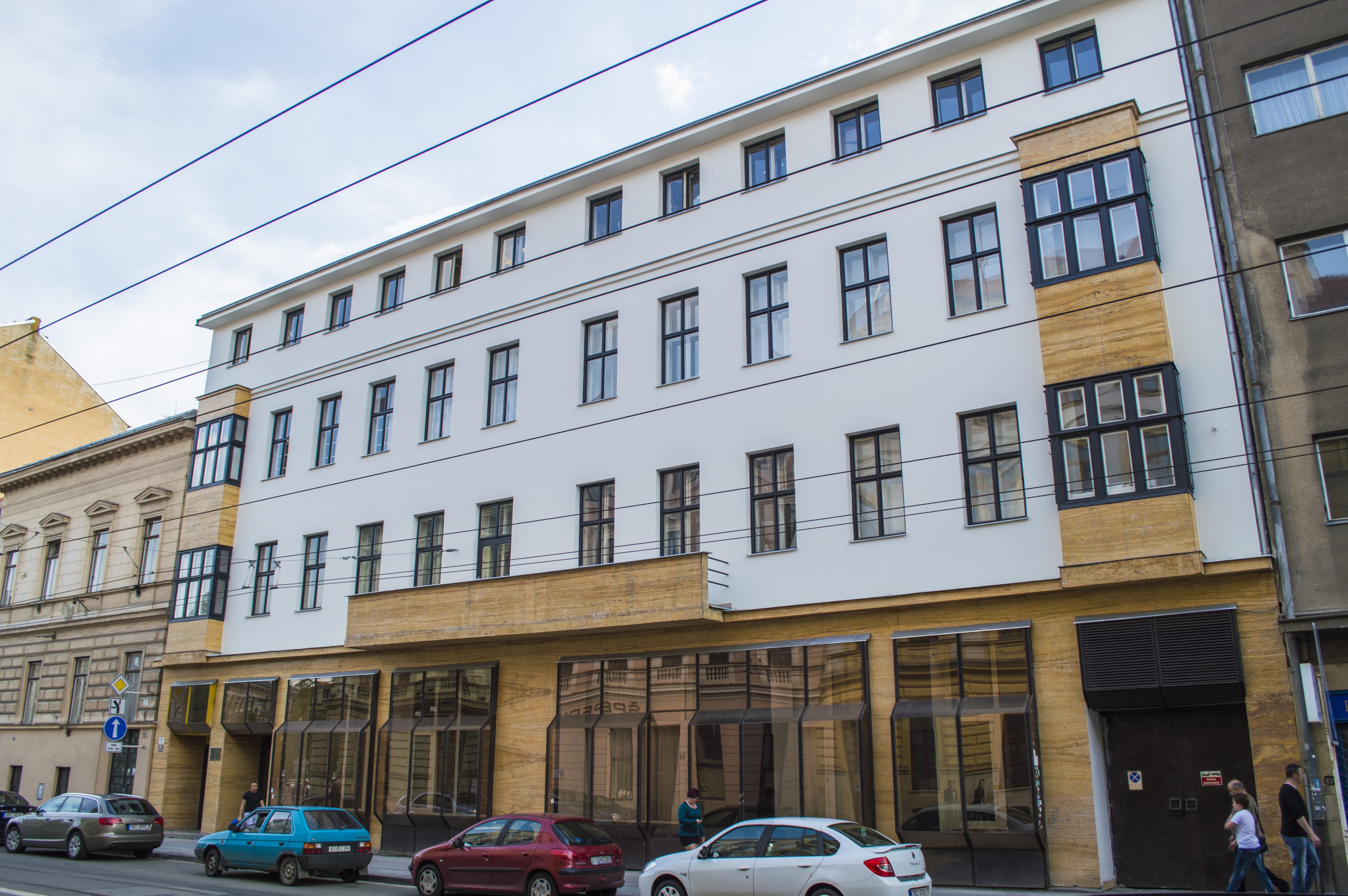 Faculty of Fine Arts, Brno University of Technology. Street Údolní in Brno. Retouched graffiti on metal doors.